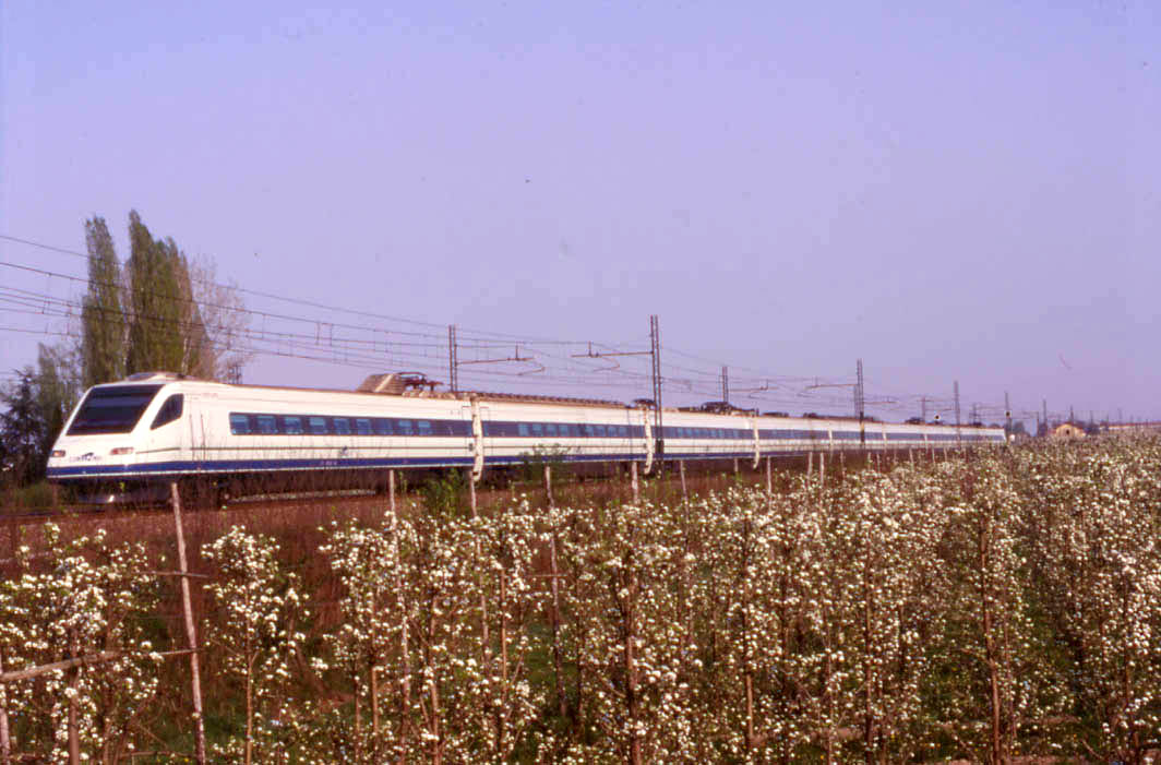 The Cisalpino railway company tilting train ETR 470 near Castelfranco Emilia